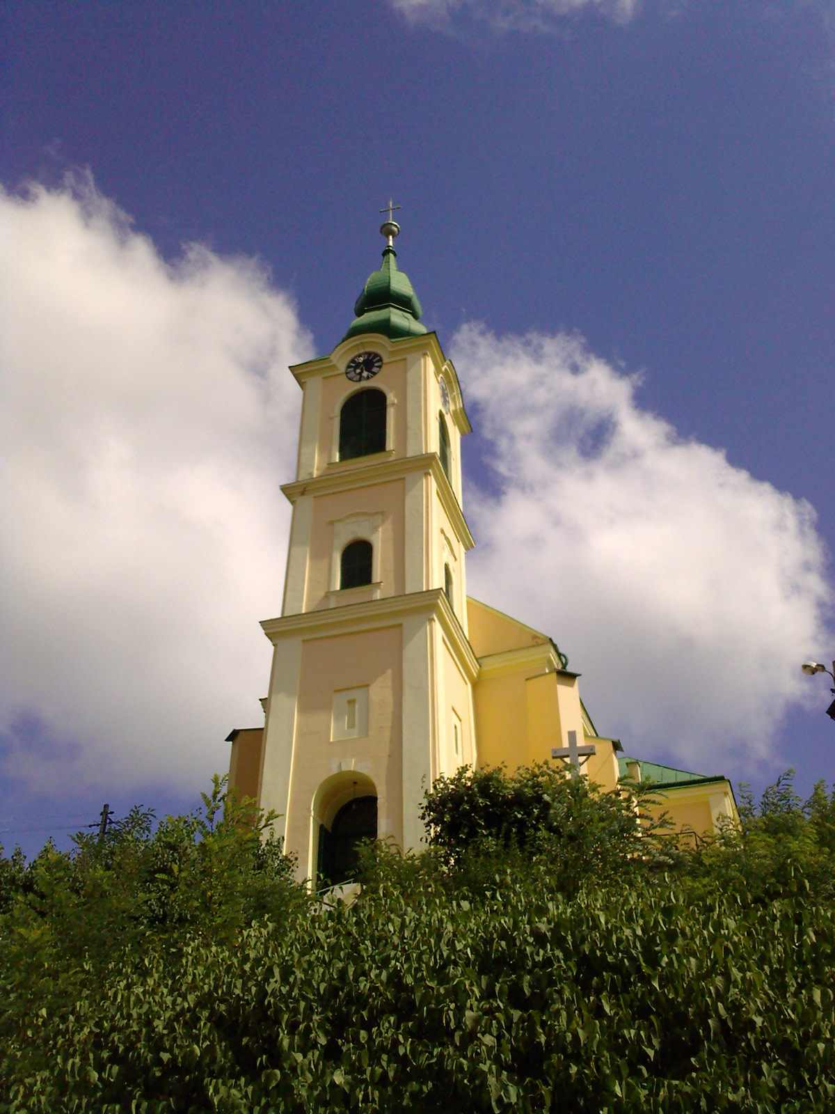 Catholic Church, Simleu Silvaniei, Salaj County, Romania